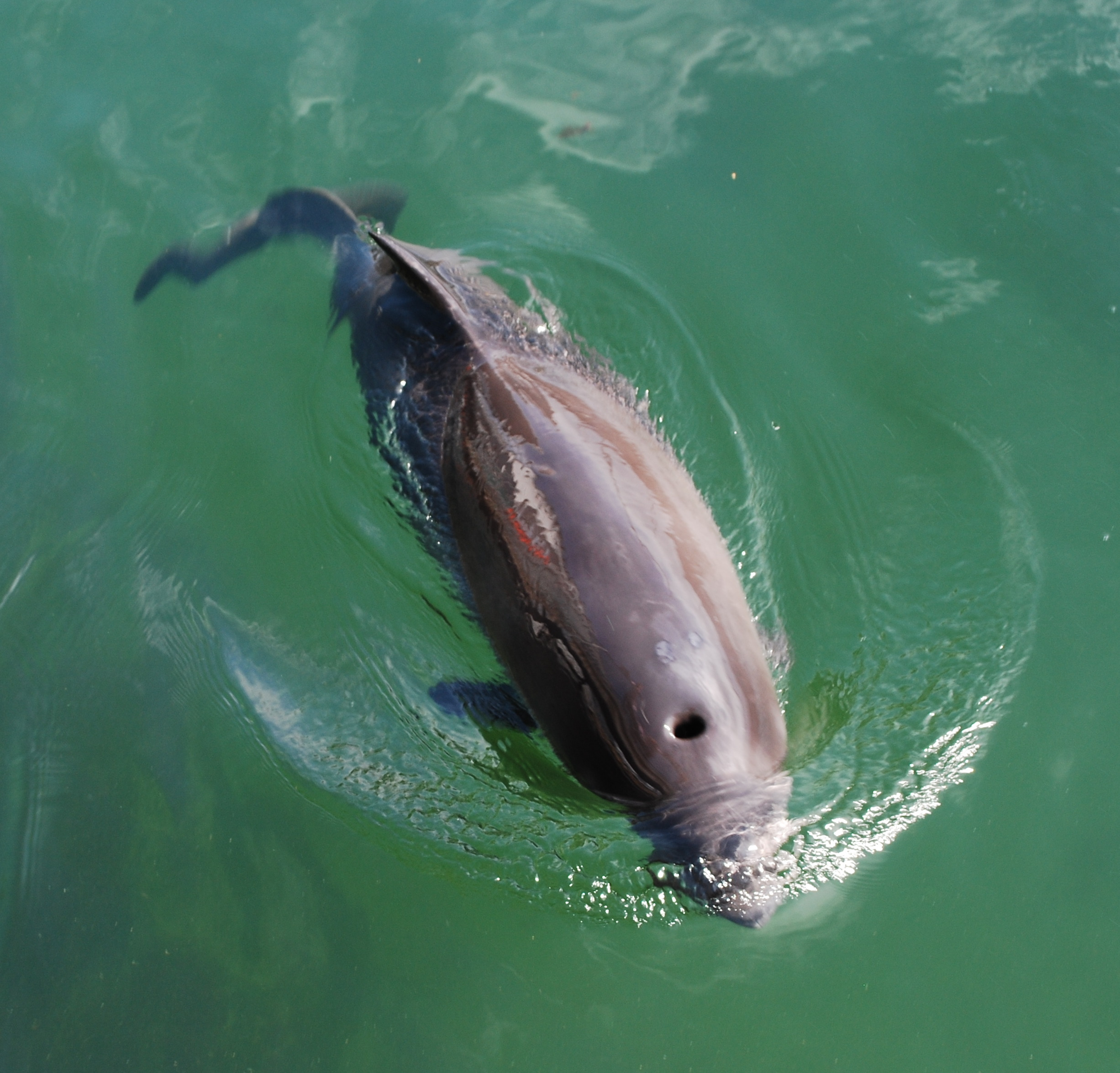 The Harbor Porpoise - Kerteminde Fjordcenter - Denmark